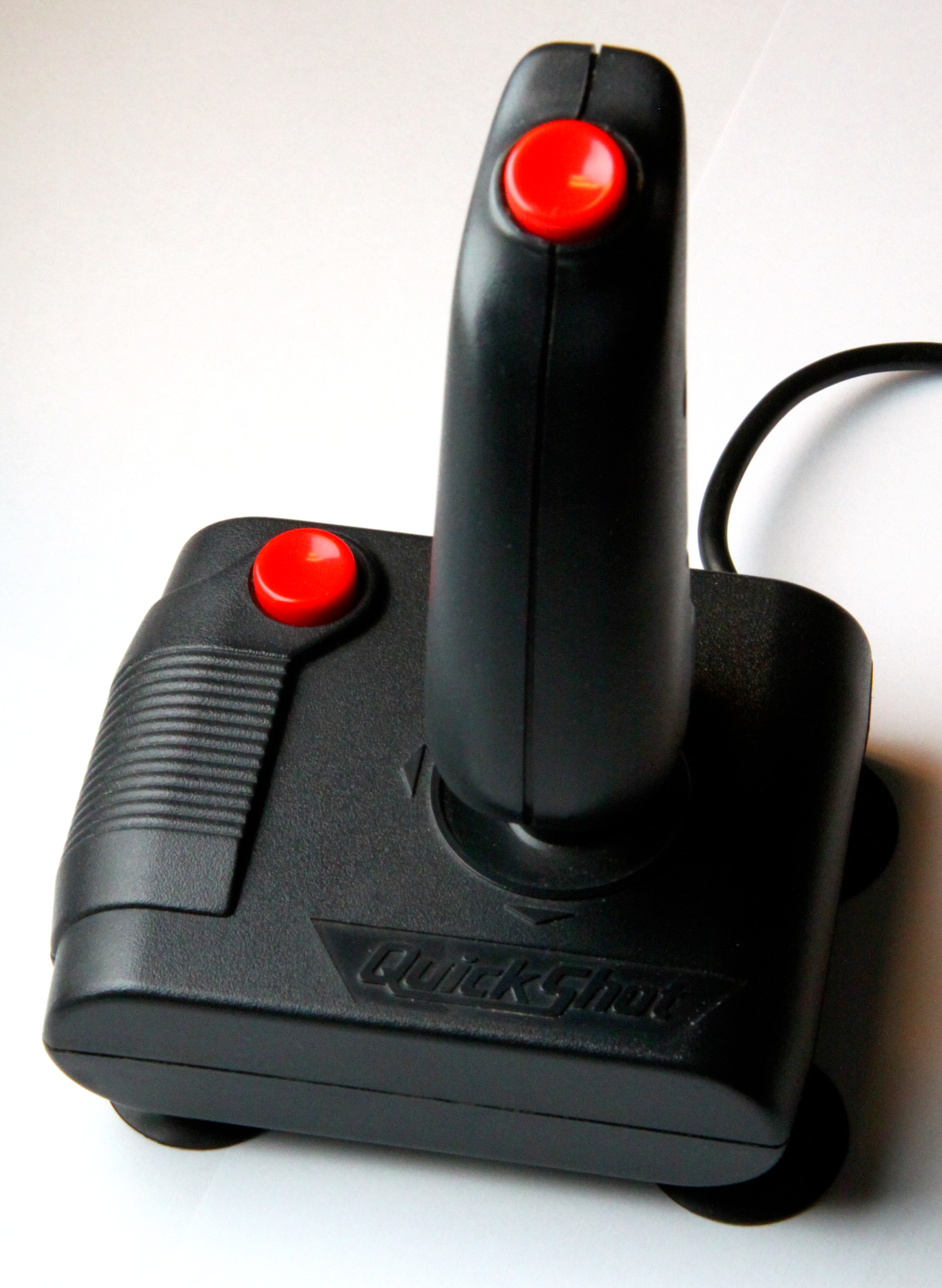 Spectravideo QuickShot I joystick (side view)